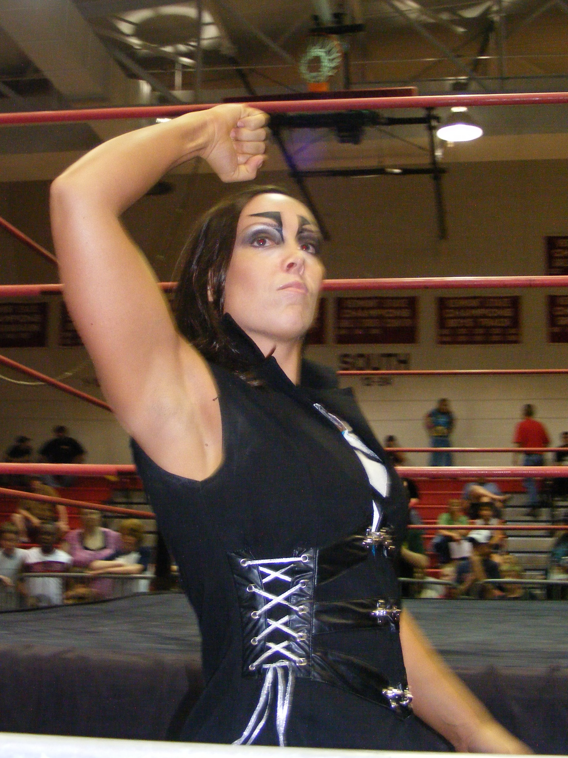 Professional wrestler Sara Del Rey posing prior to a match at an APW show on May 16, 2009 in Rutland, Vermont.